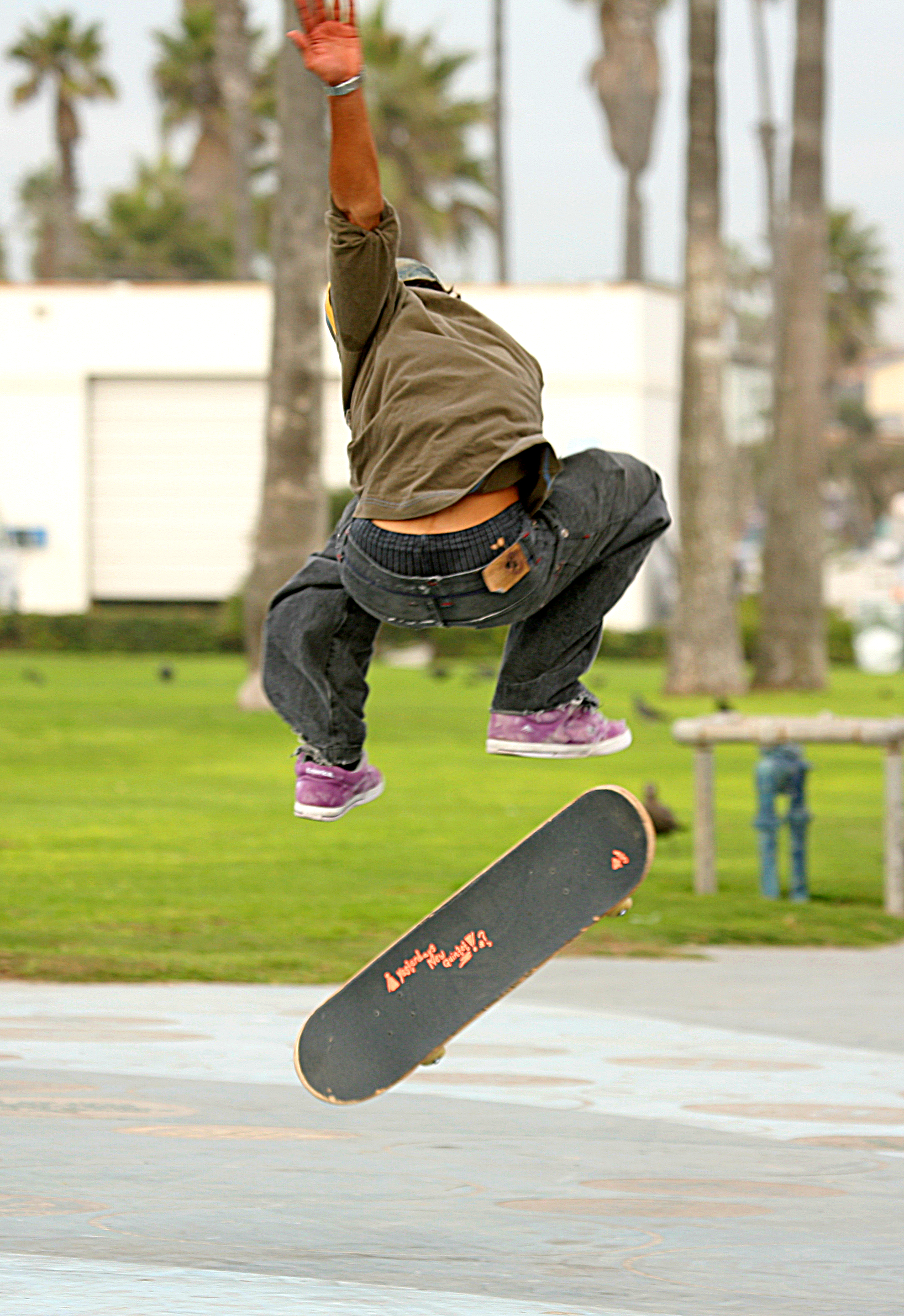 Skateboarding in San Diego, California, November 2007